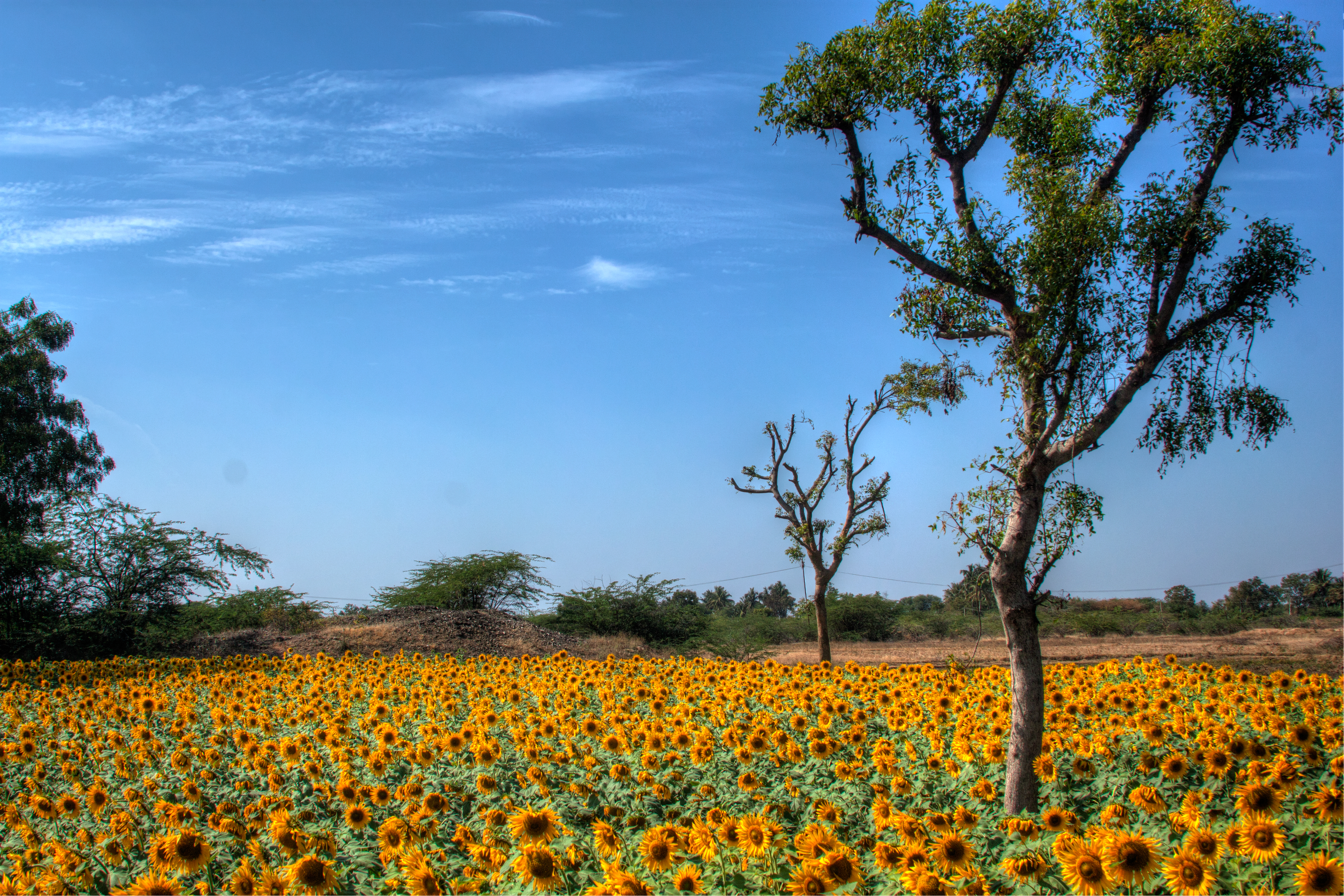 This one is from Lepakshi, Andra Pradesh, India. Lepakshi has got beautiful sunflower farms. Rural life, Agriculture, Village, Cash crops of India January 2013